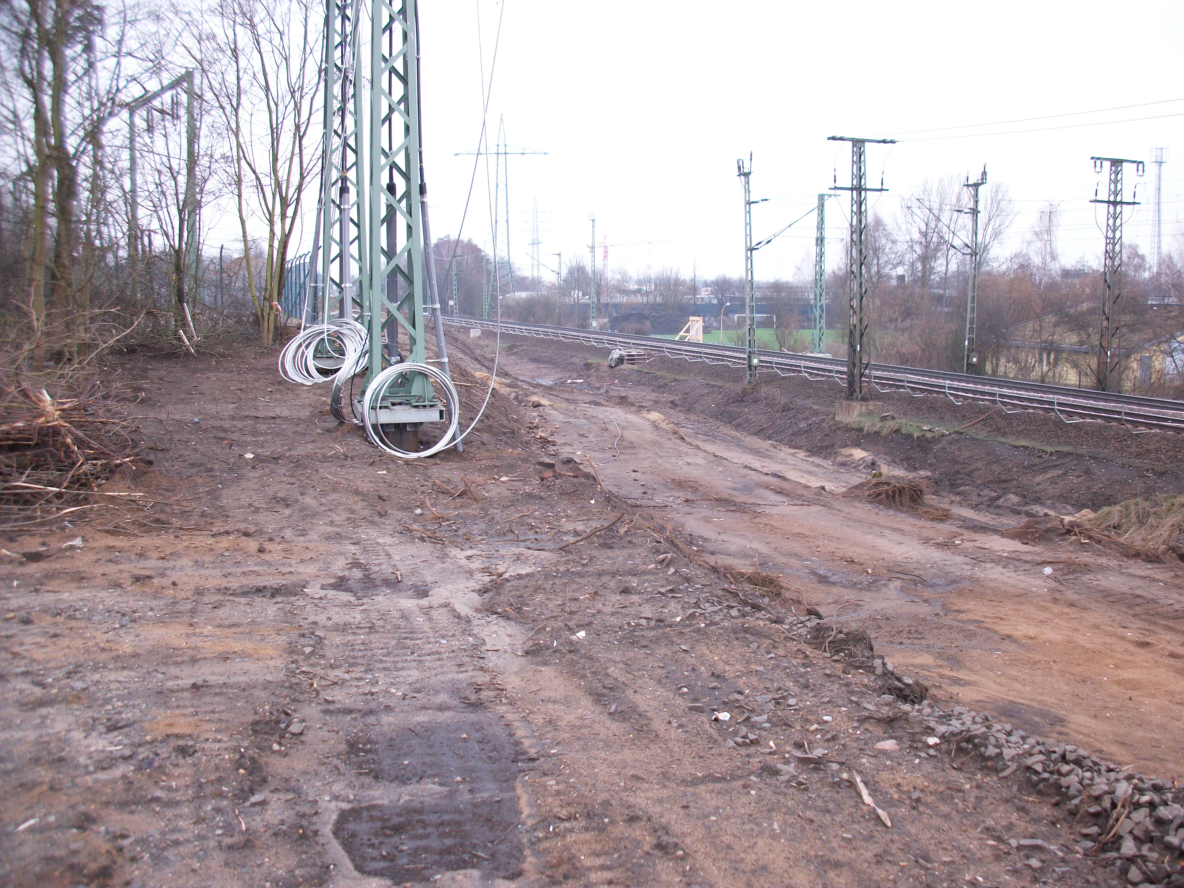 Work on the line Hanover–Hamburg Railway near the Unterwerk Lüneburg.